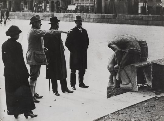 The sculptor Kai Nielsen at Blågårds Plads in Copenhagen, Denmark, where he created 22 granite statues integrated in a wall between 1912 and 1916